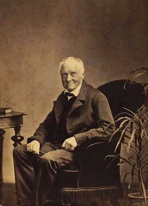 Henrik Stampe (1794-1876), Danish Baron and estate owner